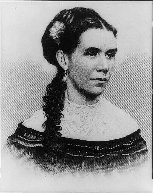 Gelatin silver print of Martha Johnson Patterson, daughter of U.S. President Andrew Johnson, circa 1880